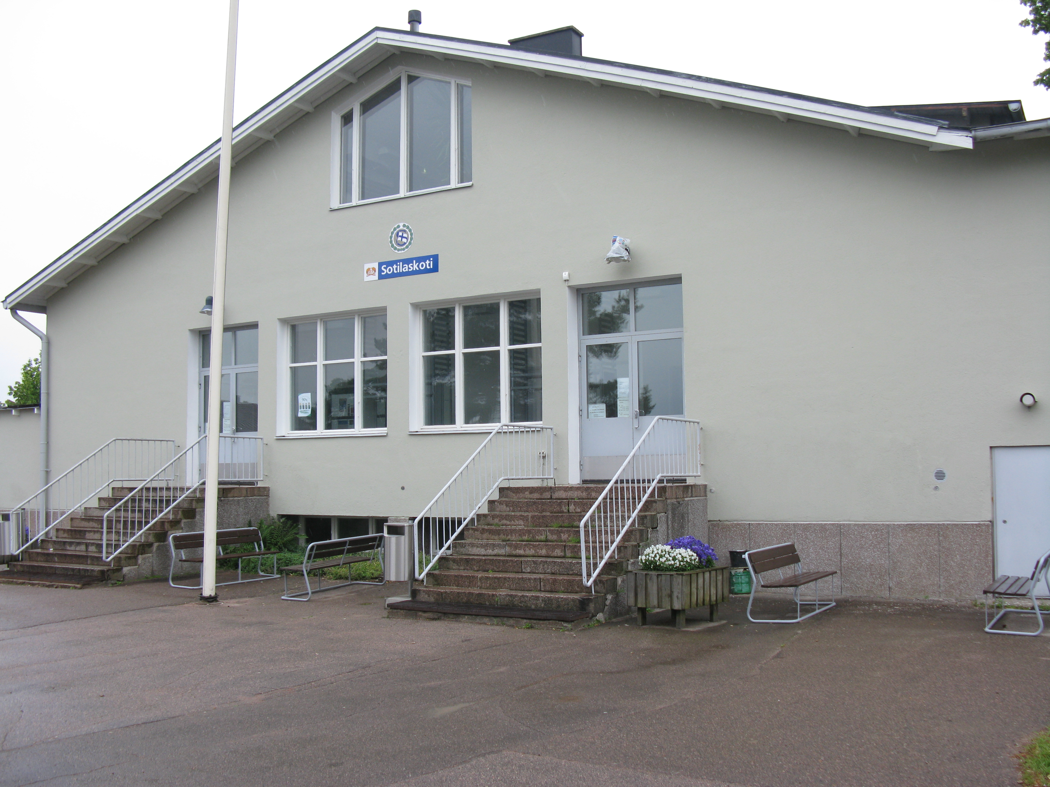 The military canteen in Hamina, Finland.